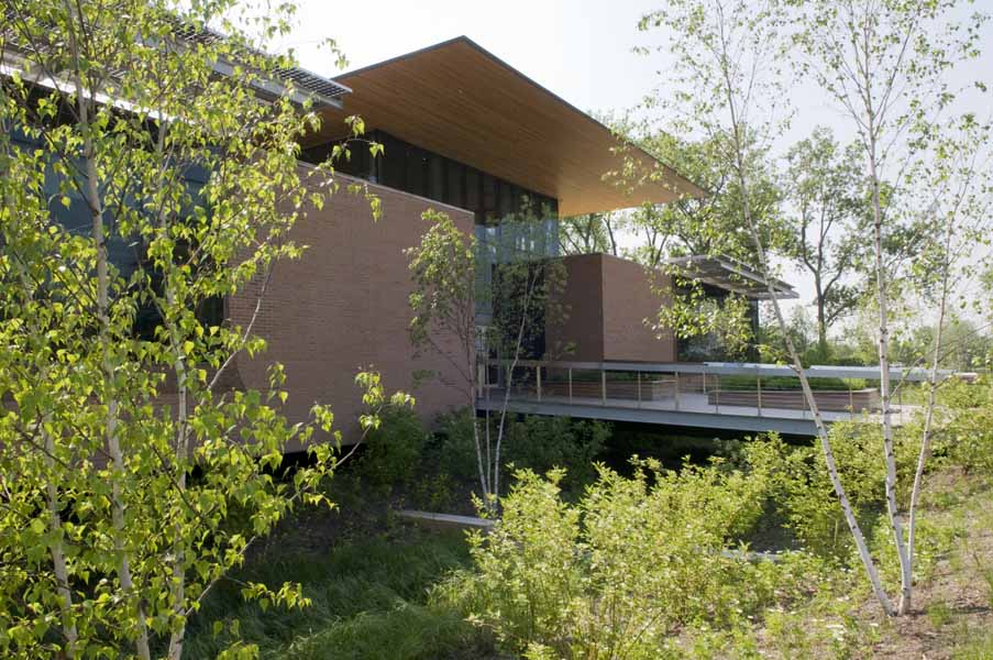 The Woman's Board of the Chicago Horticultural Society Rainwater Glen and Footbridge.